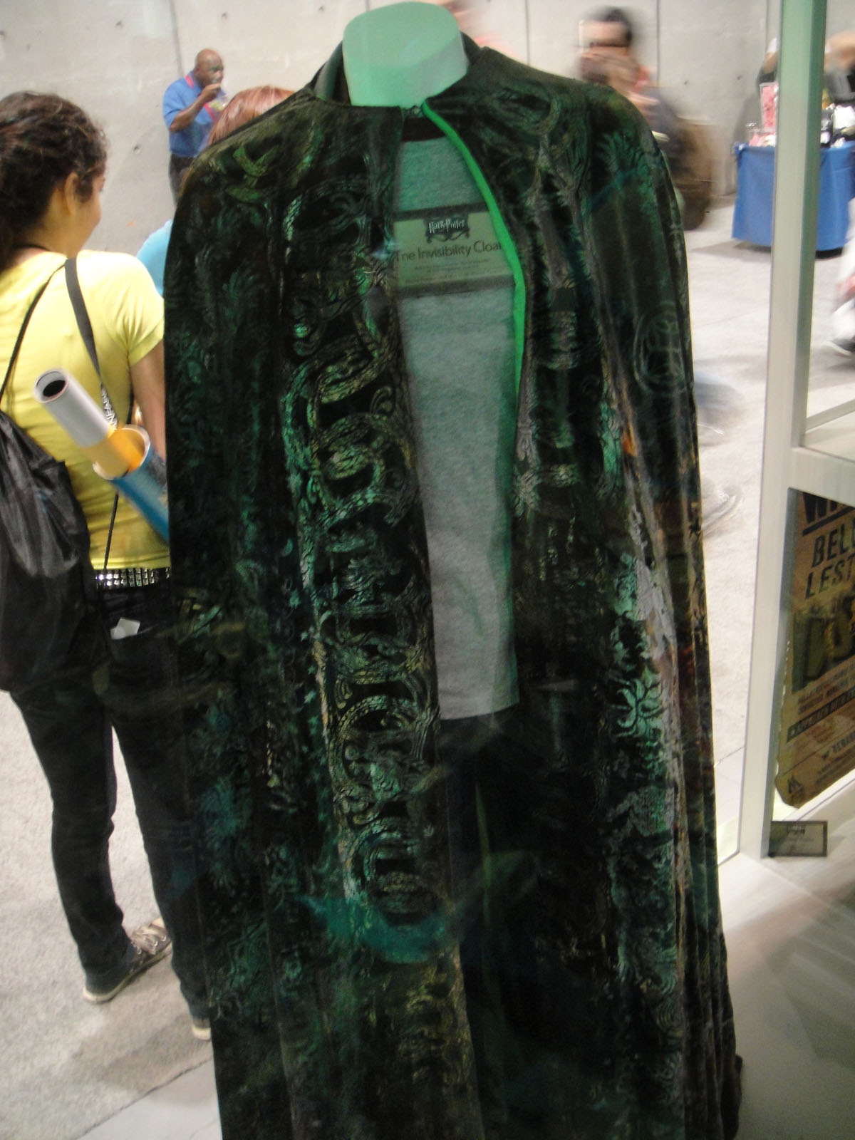 Comic-Con 2010 - WB booth - Harry Potter - Invisibility Cloak